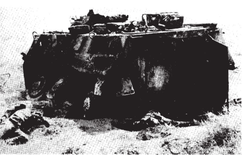 Moroccan armored personnal carrier destroyed by Polisario during operation Iman